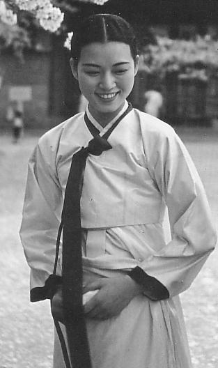 Han Eun-Jin(actress)